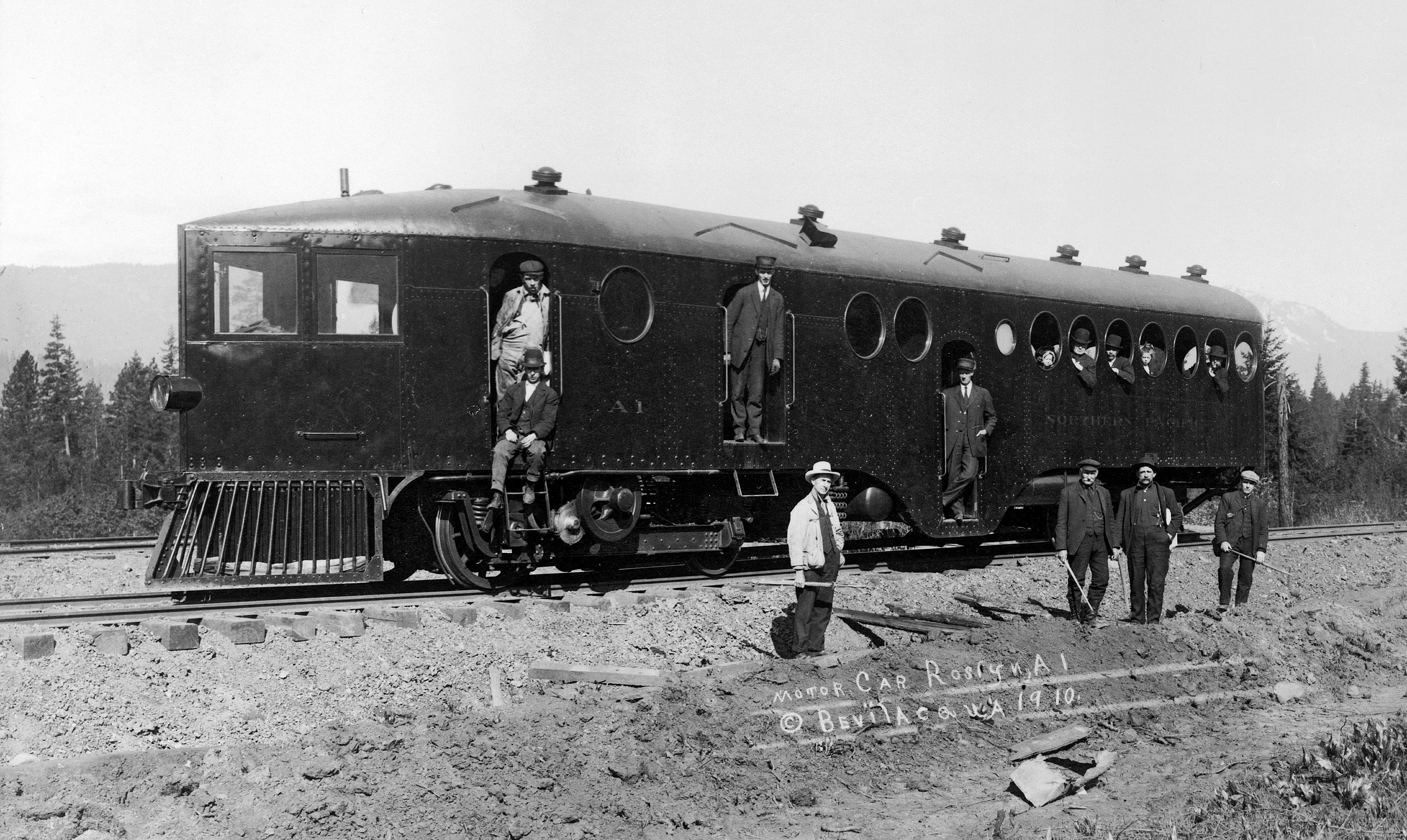 Northern Pacific Railway motor car Roslyn, a product of the McKeen Motor Car Company.